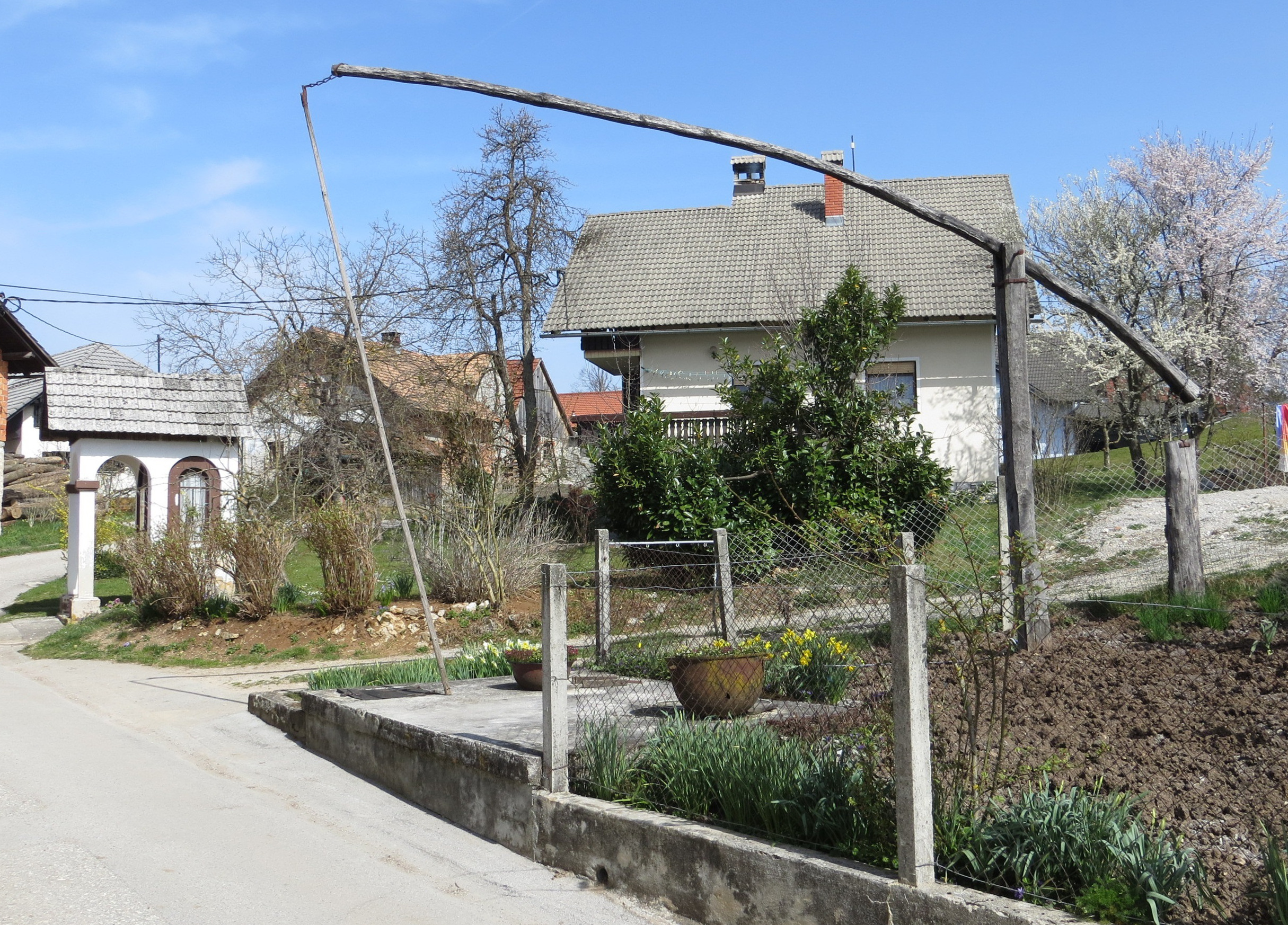 Cistern sweep (shadoof) in Gradež, Municipality of Velike Lašče, Slovenia